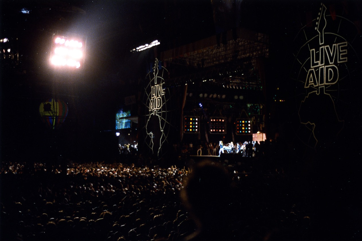 Live Aid concert after dark at JFK Stadium, Philadelphia, PA